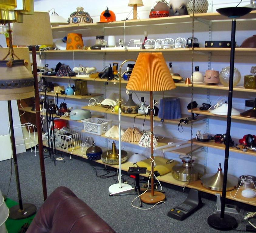 Old lamps and lampshades in a junk shop